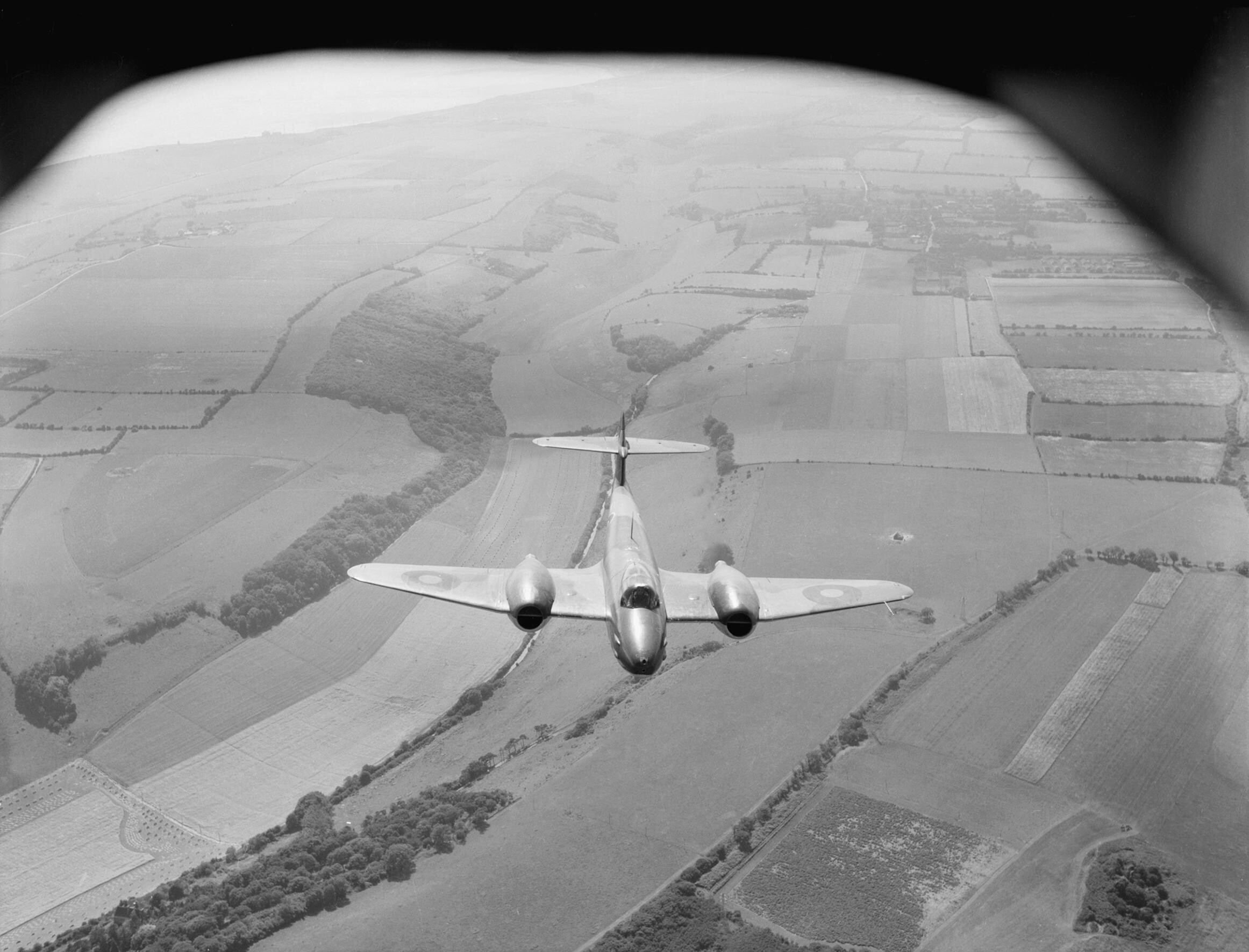 Royal Air Force Fighter Command, 1939-1945. Gloster Meteor F Mark I of No. 616 Squadron RAF, based at Manston, Kent, in flight over the countryside between West Hougham and Dover.